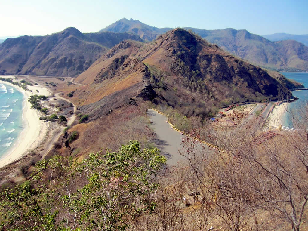 Cape Fatucama as seen from the Cristo Rei statue near Dili.